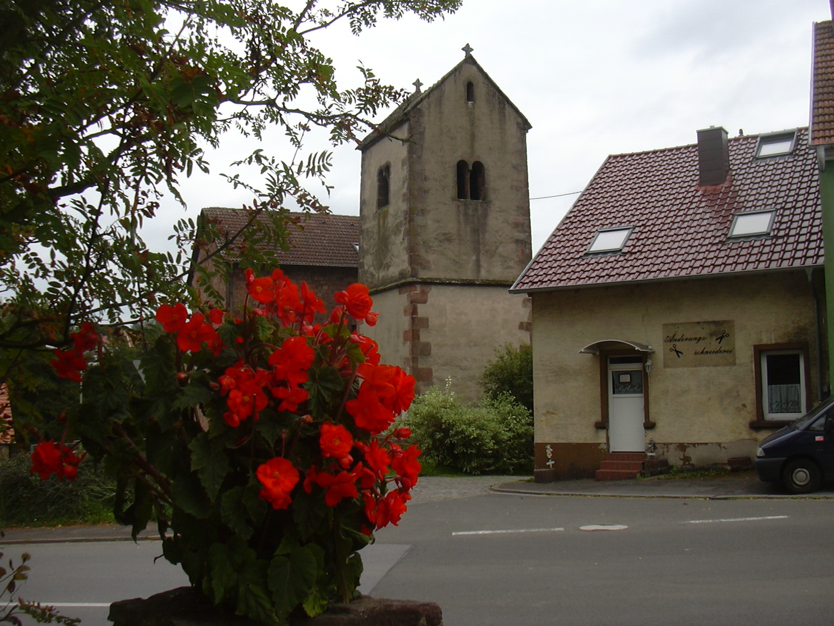 tower of former medieval church, Fürth (Ostertal), Saarland/Germany